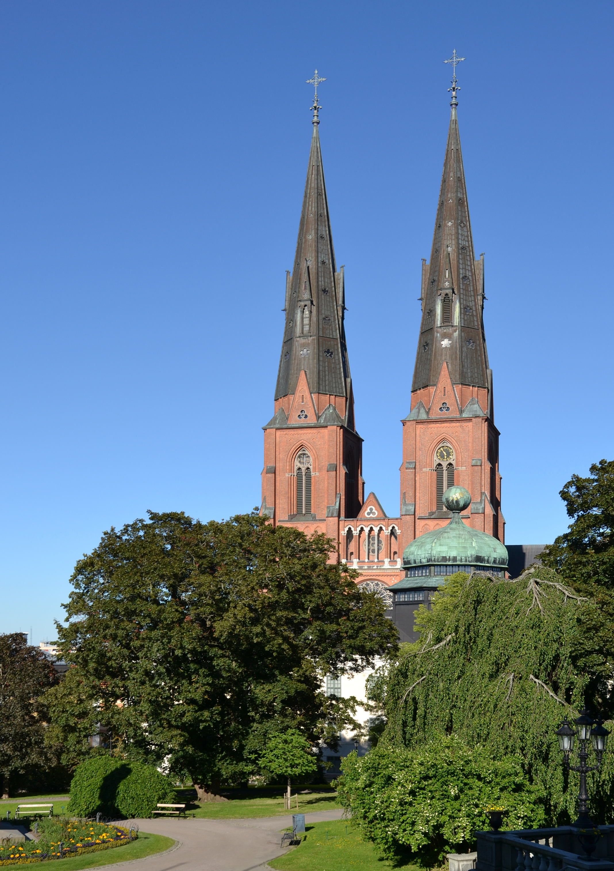 Uppsala Cathedral, Sweden